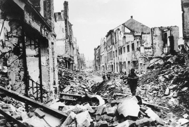 U.S. soldiers take Coblenz, Germany. Soldiers of the Third U.S. Army walk in a debris-laden street of Coblenz, Germany, following capture of the city march 17, 1945, after fierce street fighting. When the last group of German soldiers tried to surrender in the face of overwhelming U.S. opposition. Gestapo men inside a nearby building opened fire of them.